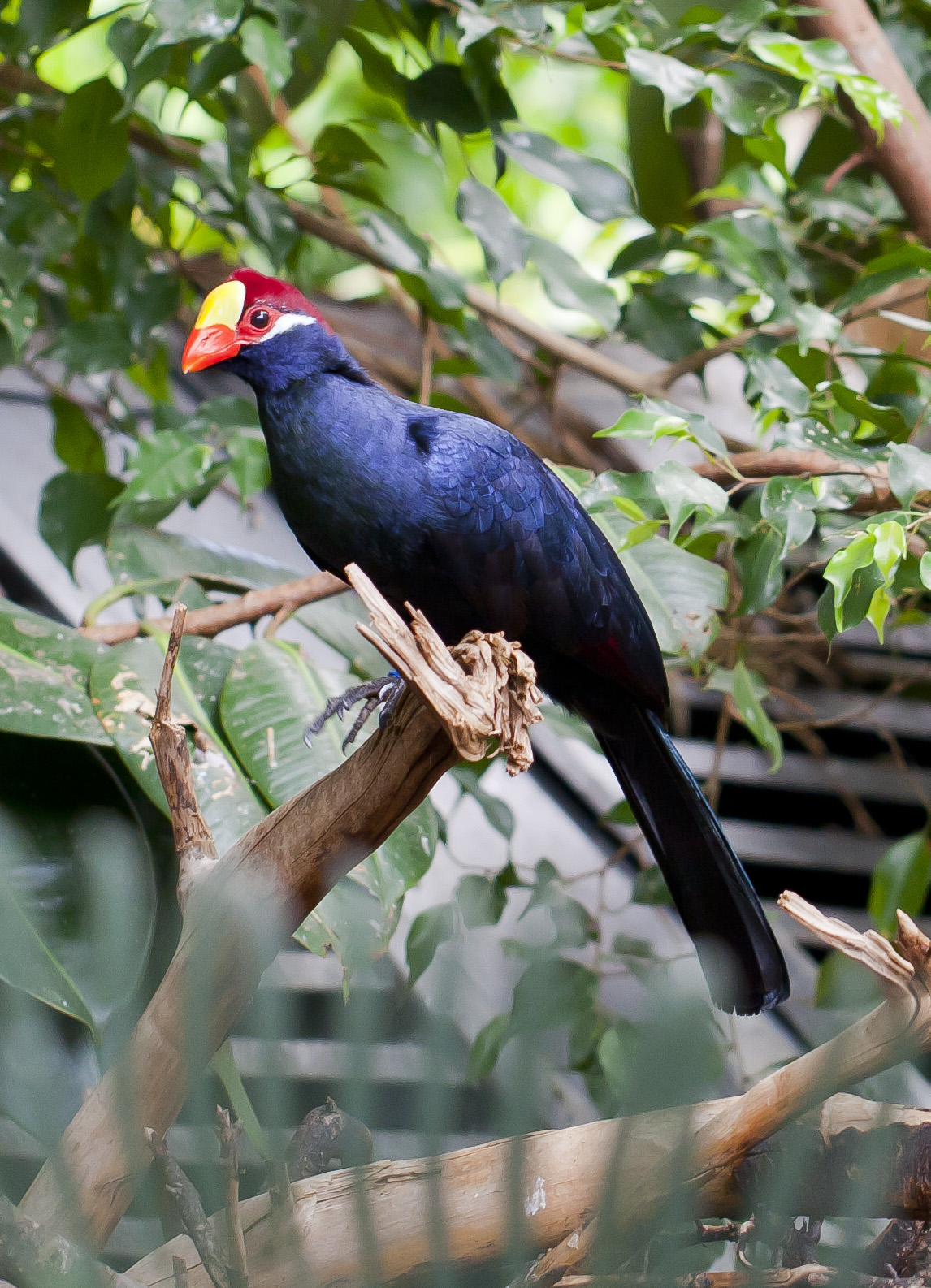 Violet Turaco (Musophaga violacea), Tierpark Hellabrunn, Munich, Germany